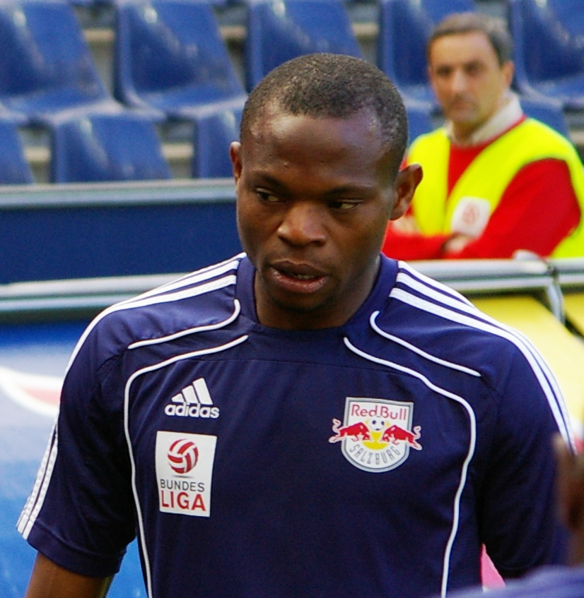 defender FC Salzburg